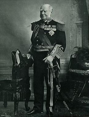 Cropped version of photo of Admiral of the Fleet Sir Henry Keppel